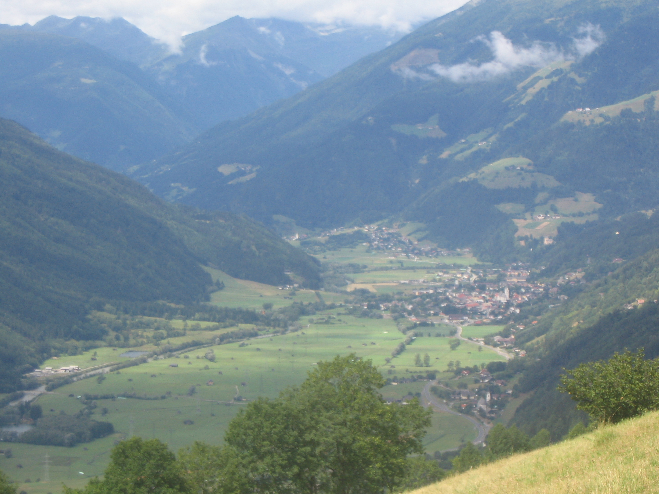 Obervellach, Bezirk Spittal an der Drau, Carinthia, Austria seen from Zwenberg.